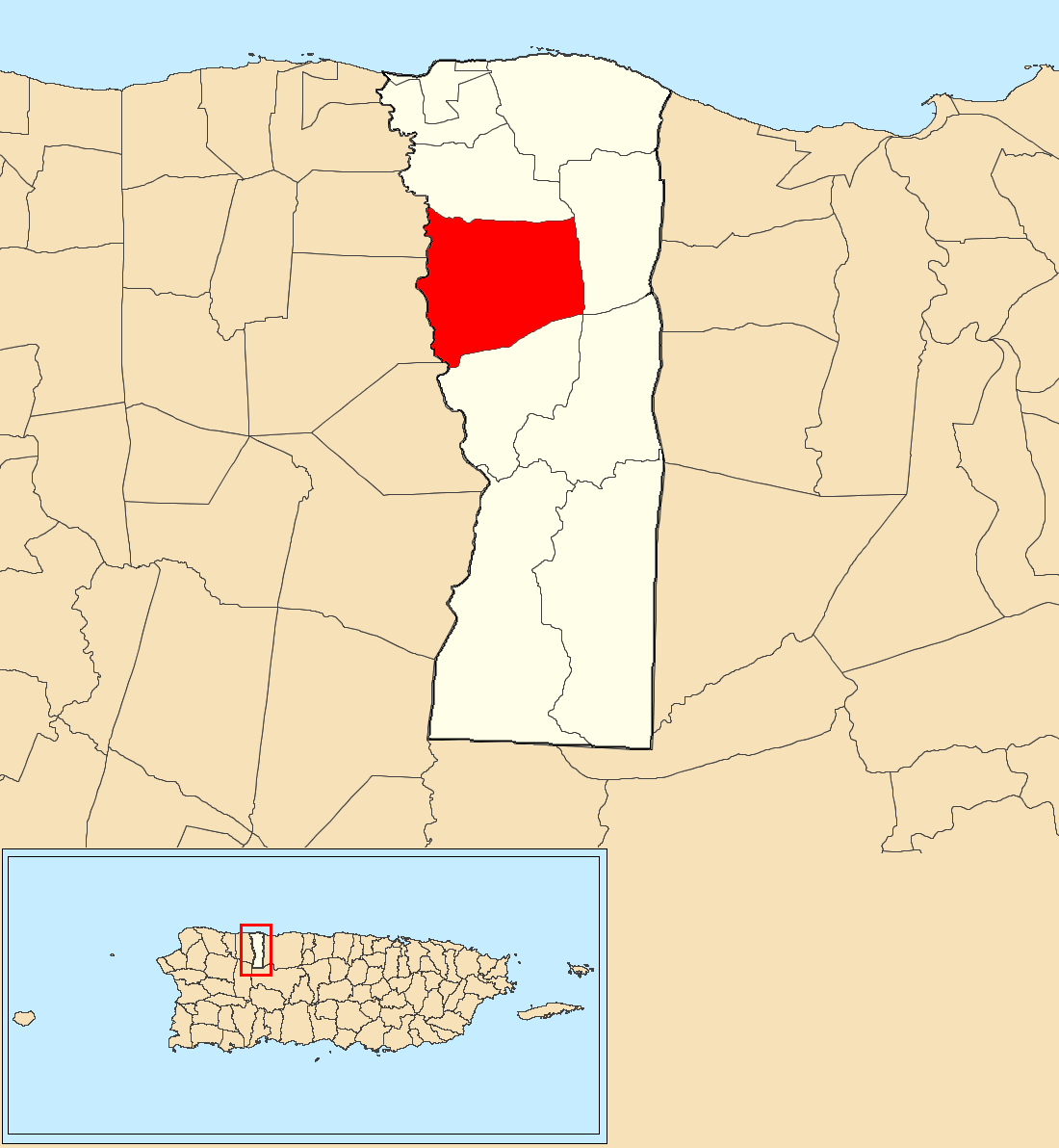 Naranjito, Hatillo, Puerto Rico locator map